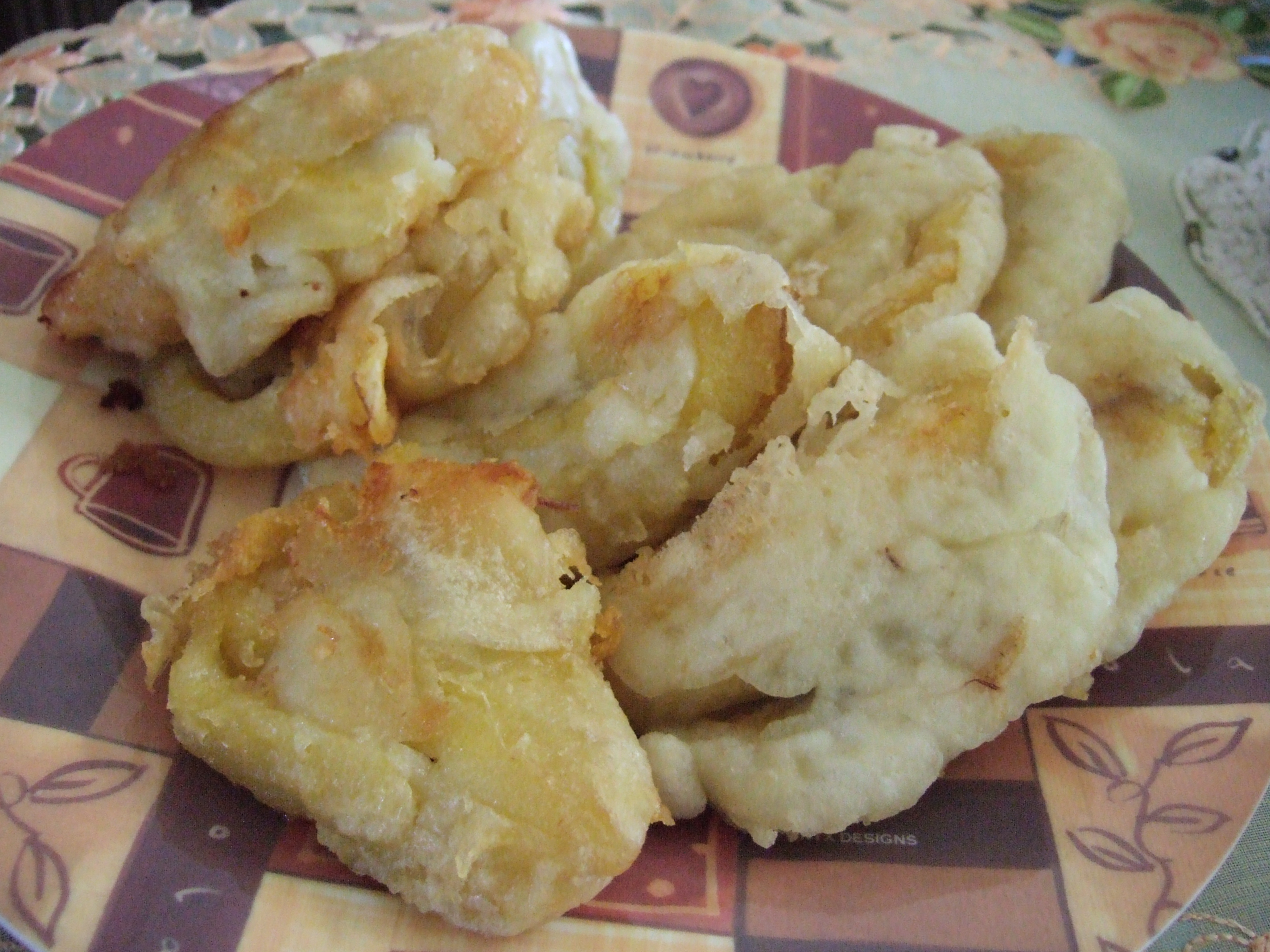 Banana fritters